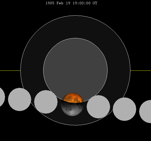 lunar eclipse chart of moon's penumbral lunar eclipse path through the earth's shadow. thumb